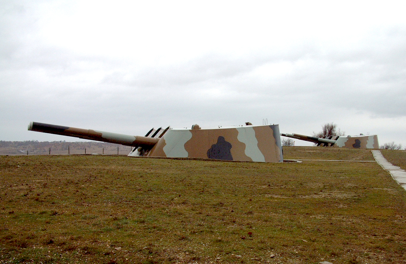 Coastal artillery battery № 30 (Sebastopol, Ukraine)